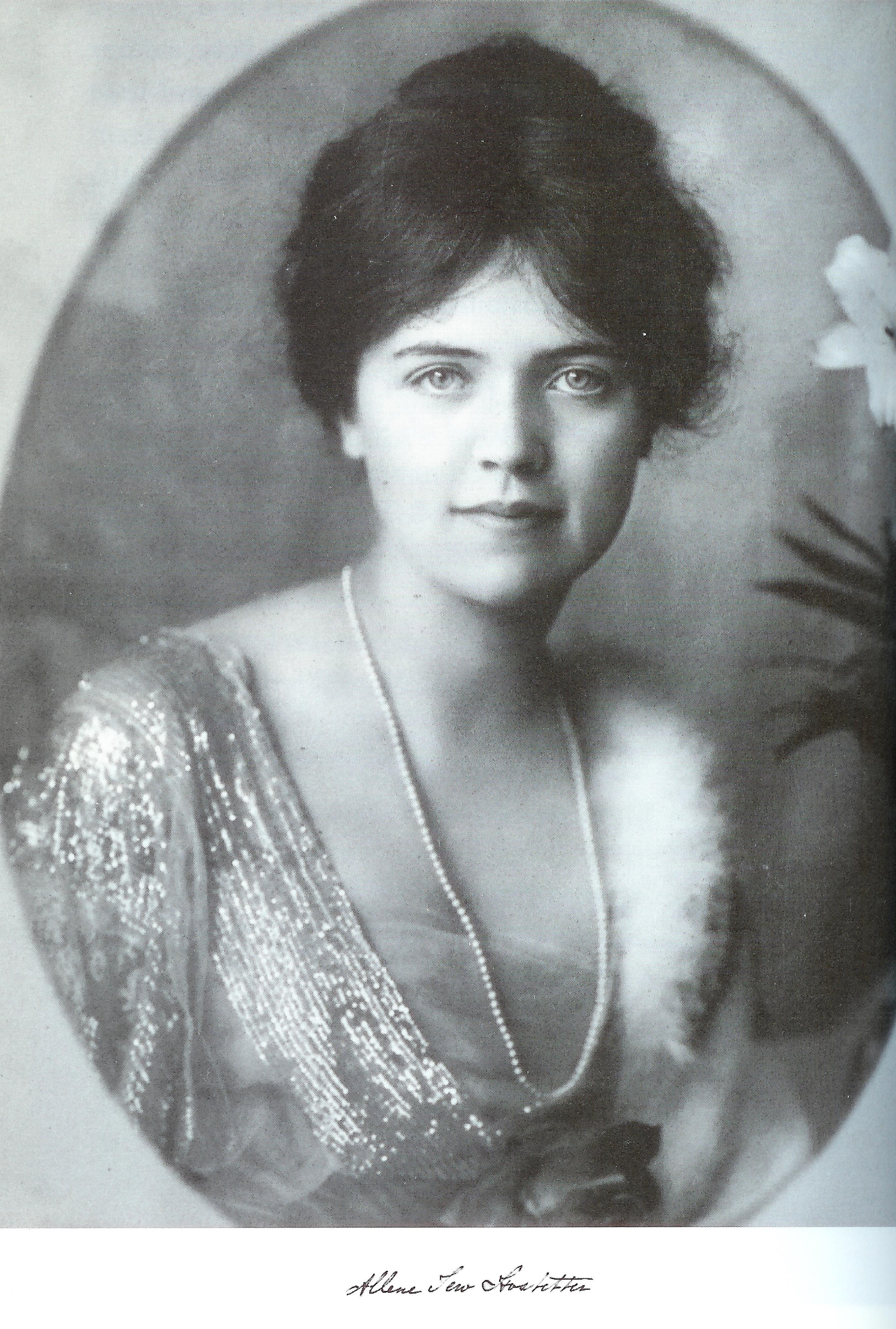 Allene Tew Hostetter. Portrait with signature, around 1892